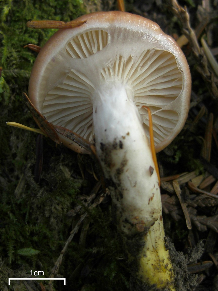 Gomphidius subroseus 20090926.64 Canada, BC, Incomappleux Inland Rainforest I just couldn't resist getting a photo of that slimy veil!